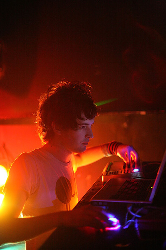 Nathan Fake in Melbourne, Australia in 2007.